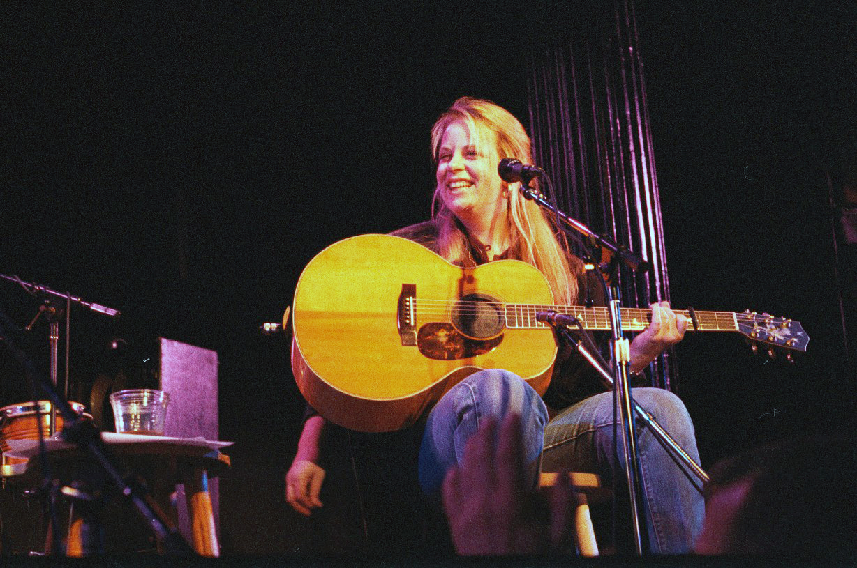 Mary Chapin Carpenter, Bottom Line NYC